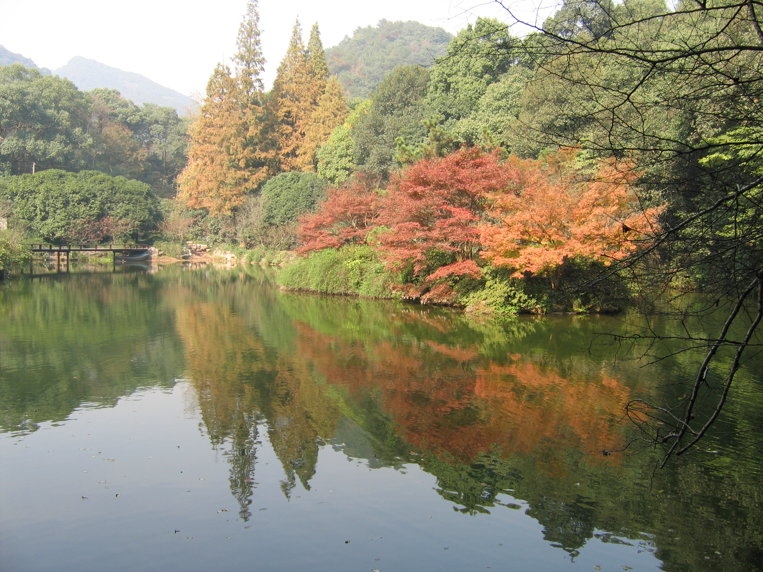 China Hangzhou Nine Creeks Meandering Through a Misty Forest(九溪烟树)